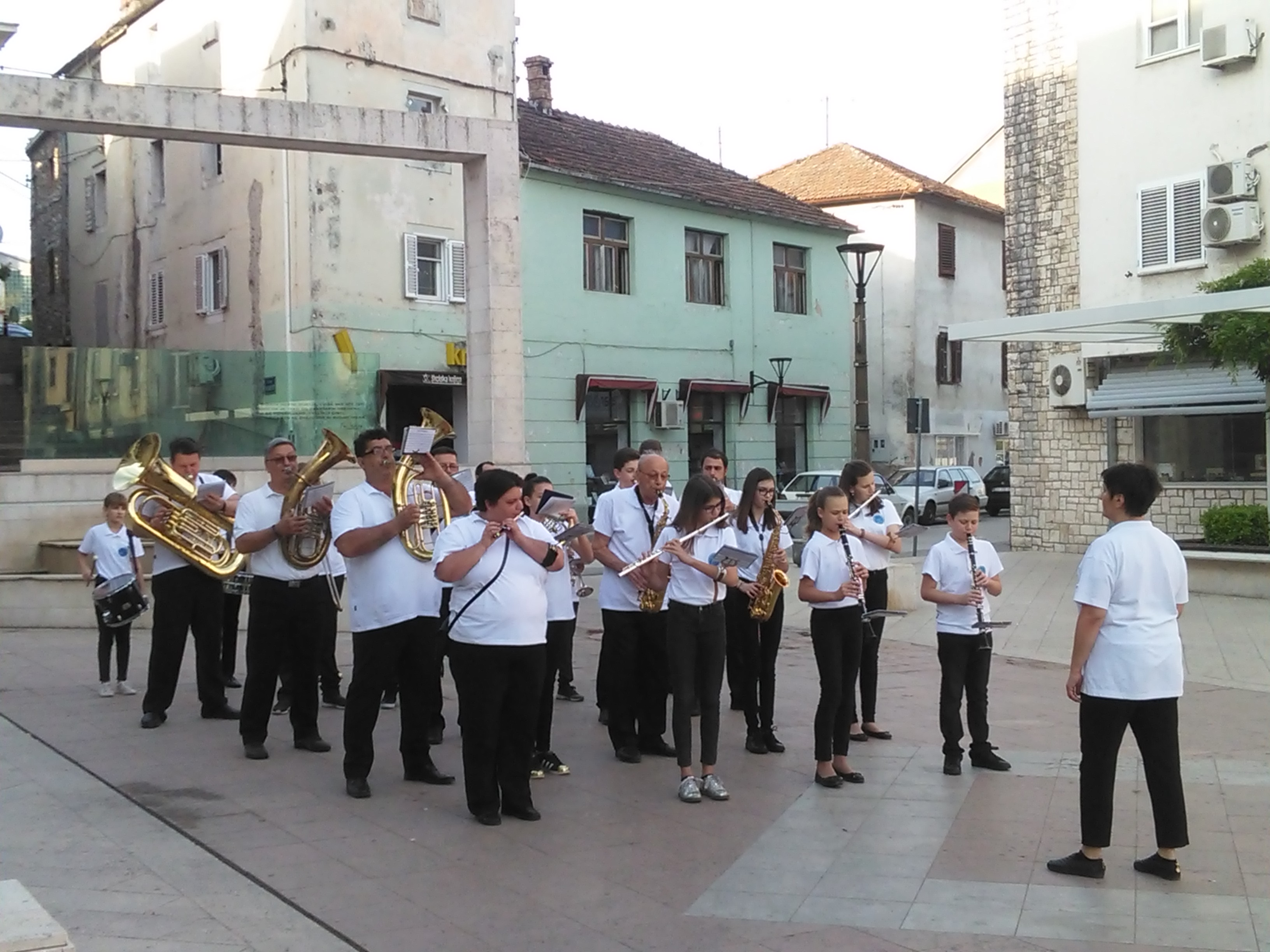 Metković Town Brass Band